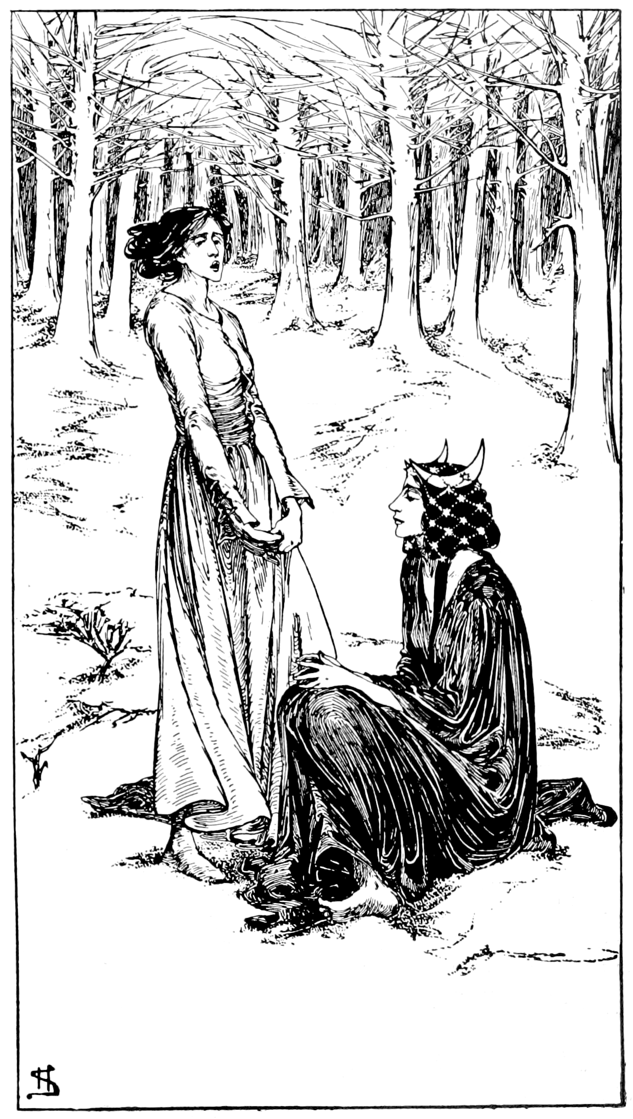 Illustration in a collection of Anderson's Fairy tales.